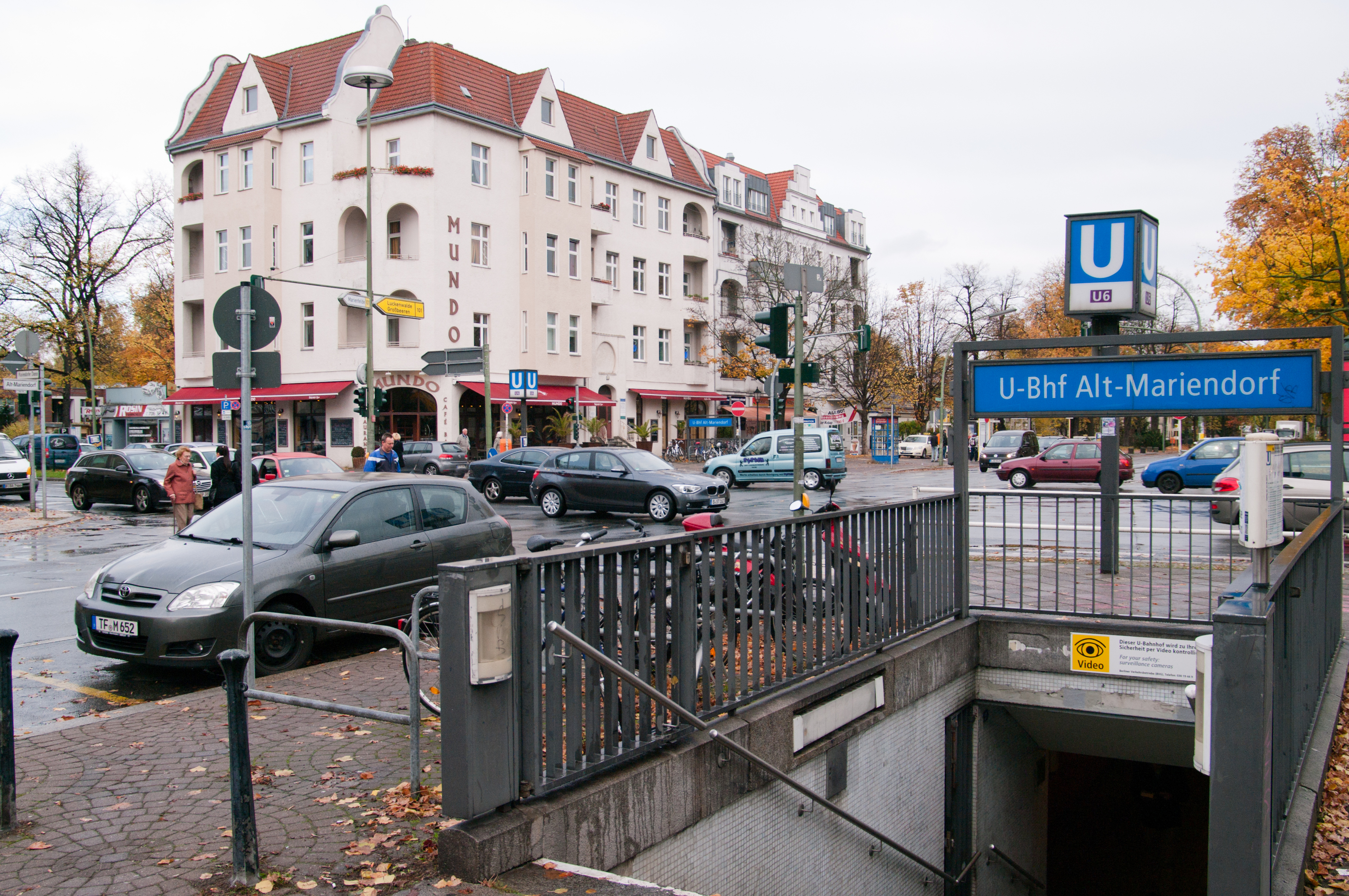 Center of the Berlin district Mariendorf